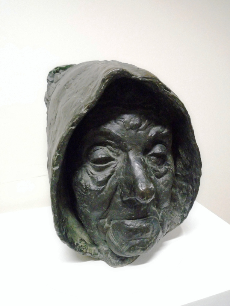 Jean Boucher sculpture in Rennes Art Museum